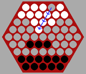 Abalone: inline move